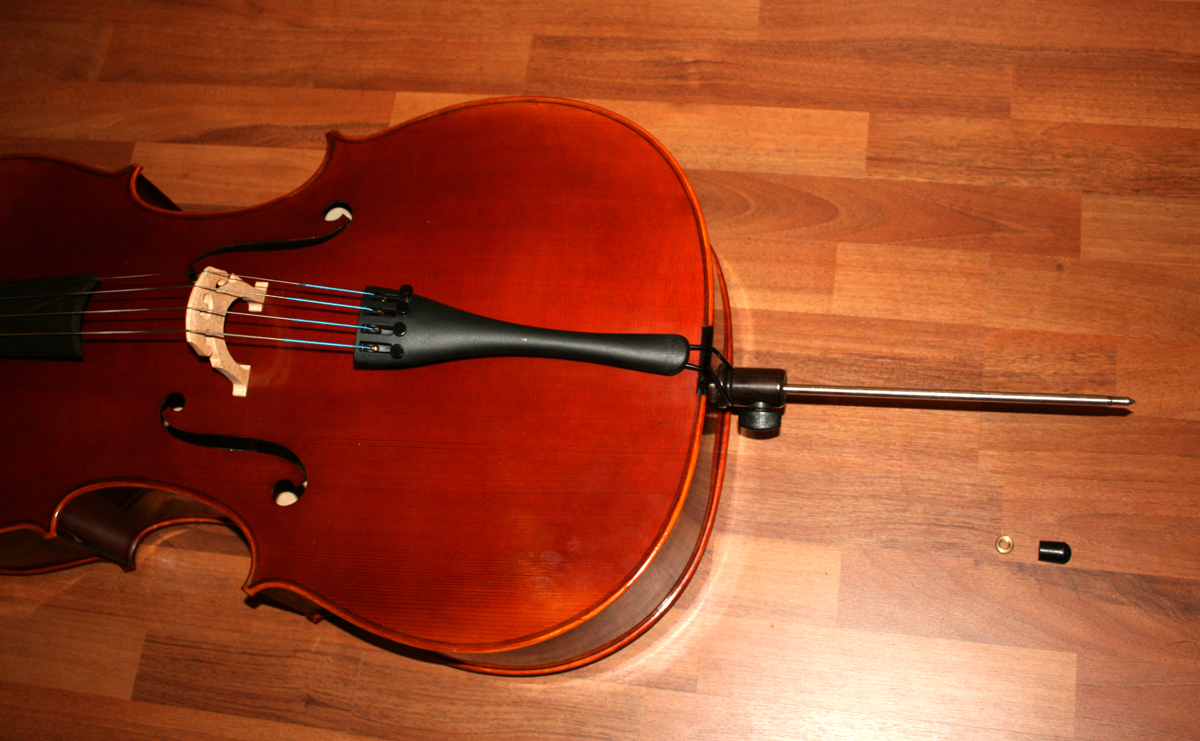 A close-up of the endpin or spike, of a cello. Next to the endpin is a black rubber cap and a screw.